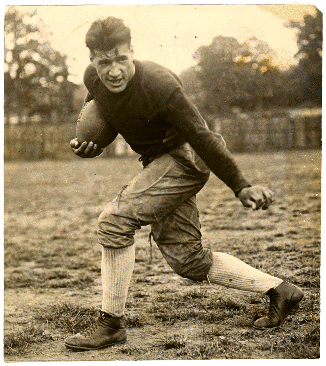 Subject: Joe Guyon, NFL Player, Tech Hall of Fame, Pro Football Hall of Fame Additionally, the source page says the following about Joe Guyton: “ Joseph Napolian Guyon Born: Aug. 26, 1892 Died: Nov. 27, 1971 son of, Charles M. Guyon Mahnomen, Minn. Football -- 1917, 1918 All-American 1918 (played HB & Tackle; selected for Tackle) Addresses: 1954: Route 2, Harrah, Okla. 1957: 1092 Shumaker Ave., Flint Mich. (Bank Guard Citizens Commercial) 1968: 2714 South 5th St. Louisville, Ky. 40208 PRO FOOTBALL CAREER GUYON, Joseph (Carlisle & Georgia Tech.) -- Back -- 1919-20 Canton Bulldogs; 1921 Cleveland Indians; 1922-23 Oorang Indians; 1924 Rock Island Independents; 1924-25 Kansas City Cowboys; 1927 New York Giants; 1966 Hall of Fame Resources: Actual photo (348A); The Official Encyclopedia of Football by Roger Treat, 10th revised edition (Personality files) ”